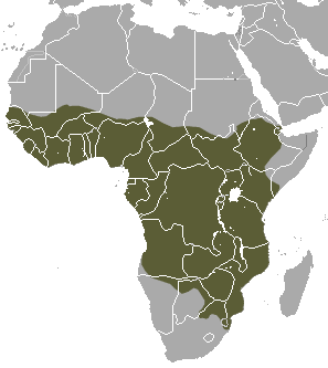 African Civet (Civettictis civetta) range